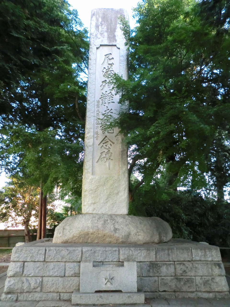 The cenotaph for the victims of Nikolayevsk Incident (Niko Junnansya Kinenhi) located at Horihara, Mito city, Ibaraki prefecture. Built in 1922-03. The epitaph written by Yamanashi Hanzō.